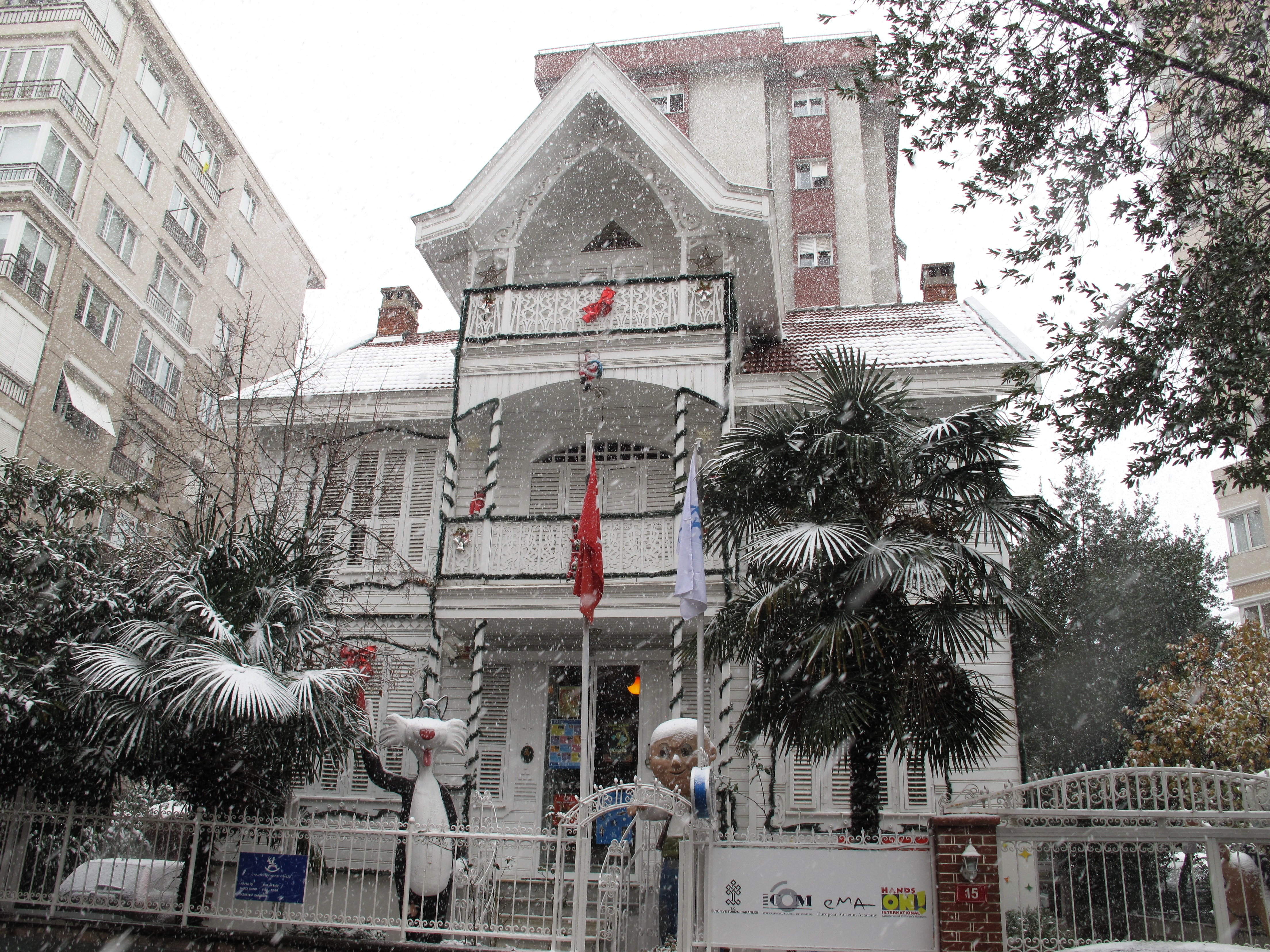 Toy Museum Istanbul - buildingTürkçe: İstanbul Oyuncak Müzesi - bina